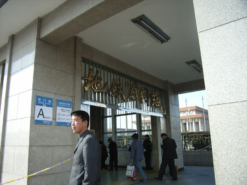 Beijing subway Qianmen station